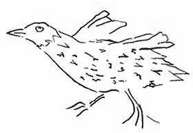 Ascension Rail (Mundia elpenor) Drawing made by Peter Mundy around the year 1656 Of course Peter Mundy may not have been the worlds best painter, but he is the only one who left reports of this bird species which is otherwise known only by subfossil bones. This does not appear to be the original version of the drawing, but appears to be a copy of it that is distinct in some details (position of the toes), but is largely the same in posture.